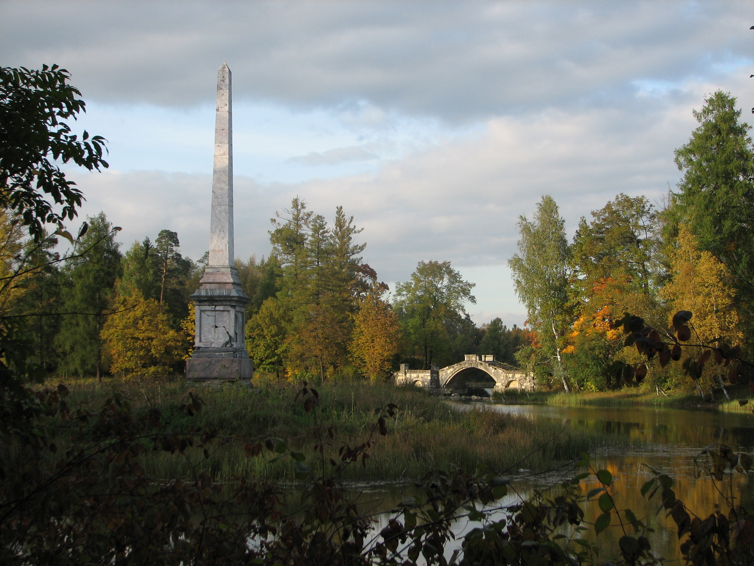 Chesma Obelisk and Humped Bridge in Palace park. Gatchina, Russia)